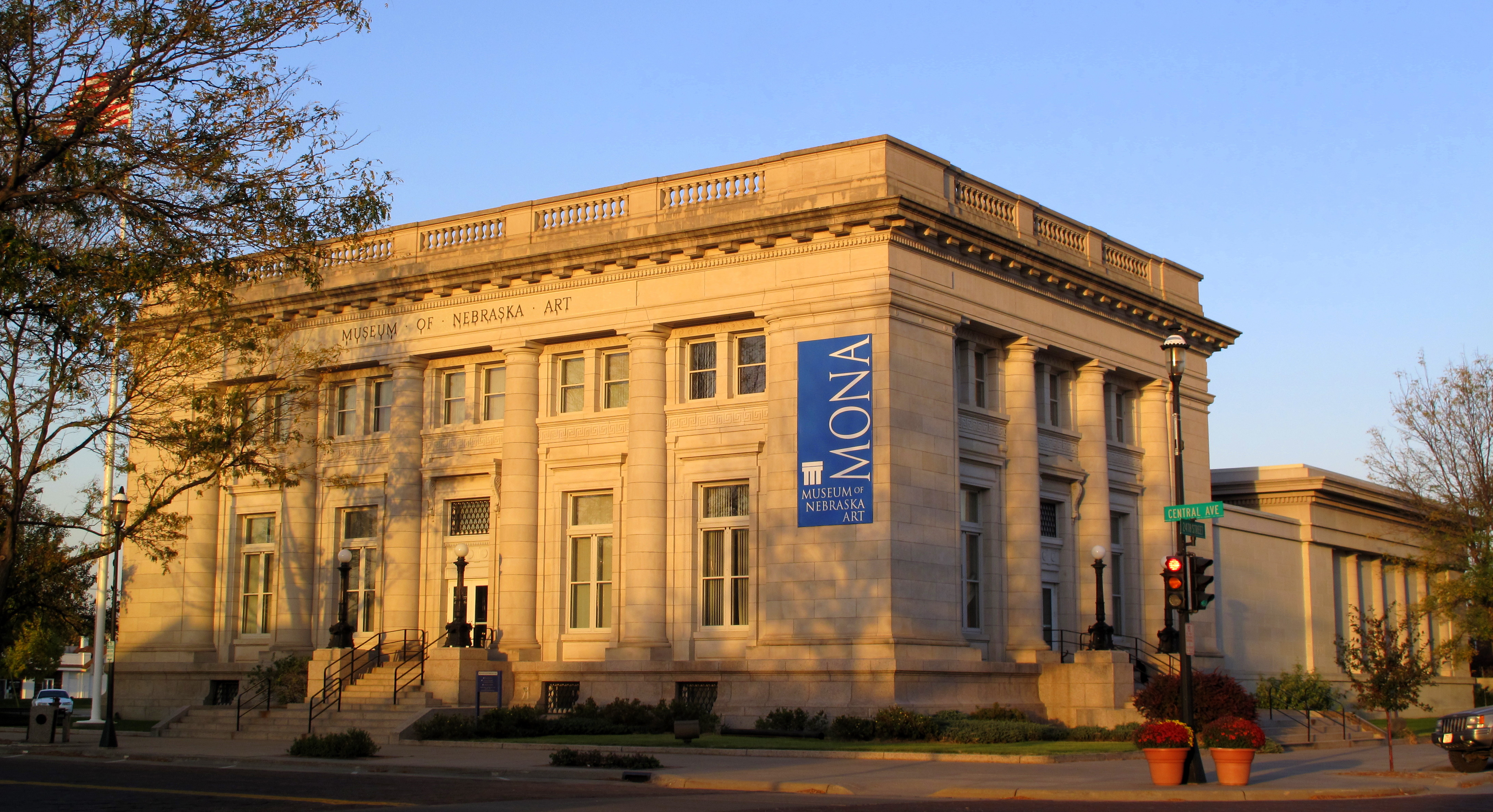 U.S. Post Office